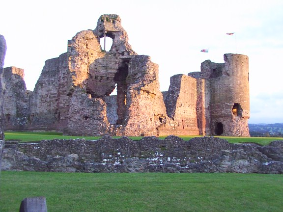 Rhuddlan Castle